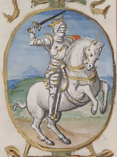 Alfonso III of Leon